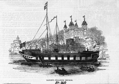 Sailor's Floating Church. Resulting from a meeting held at the London Tavern, Bishopsgate in July 1825 presided over by the Lord Mayor, it was deemed the best way to promote the spiritual welfare of the seamen and their families was by a floating chapel. The London Episcopal Floating Church Society was thereby founded, and a chaplain appointed, to be assisted by two sailors, their remit to visit seafarers afloat between London Bridge and the Pool, and their families on shore. A suitable boat was provided, and two seamen engaged. The Admiralty provided the ship Brazen, a 26-gun ex sloop-of-war, lately used as a convict ship, to be now employed as a 'floating church', The ship was adapted from May to September 1827 to accommodate 500 hearers, she was renamed Bethel.[1] On 10 February 1828 she was delivered to the Committee of the Floating Church at Deptford, and moored by Rotherhithe parish church. The first service was held on Good Friday, 24 March 1829.The ship capsized in 1832 (with no loss of life) and after repairs was moved in 1834 to a new location on the north side of the Thames, in the Admiralty Tier off the Tower of London. Publisher: The Illustrated London News in 1843 January- June[2] Source of Imageː NATIONAL MARITIME MUSEUM, LONDON